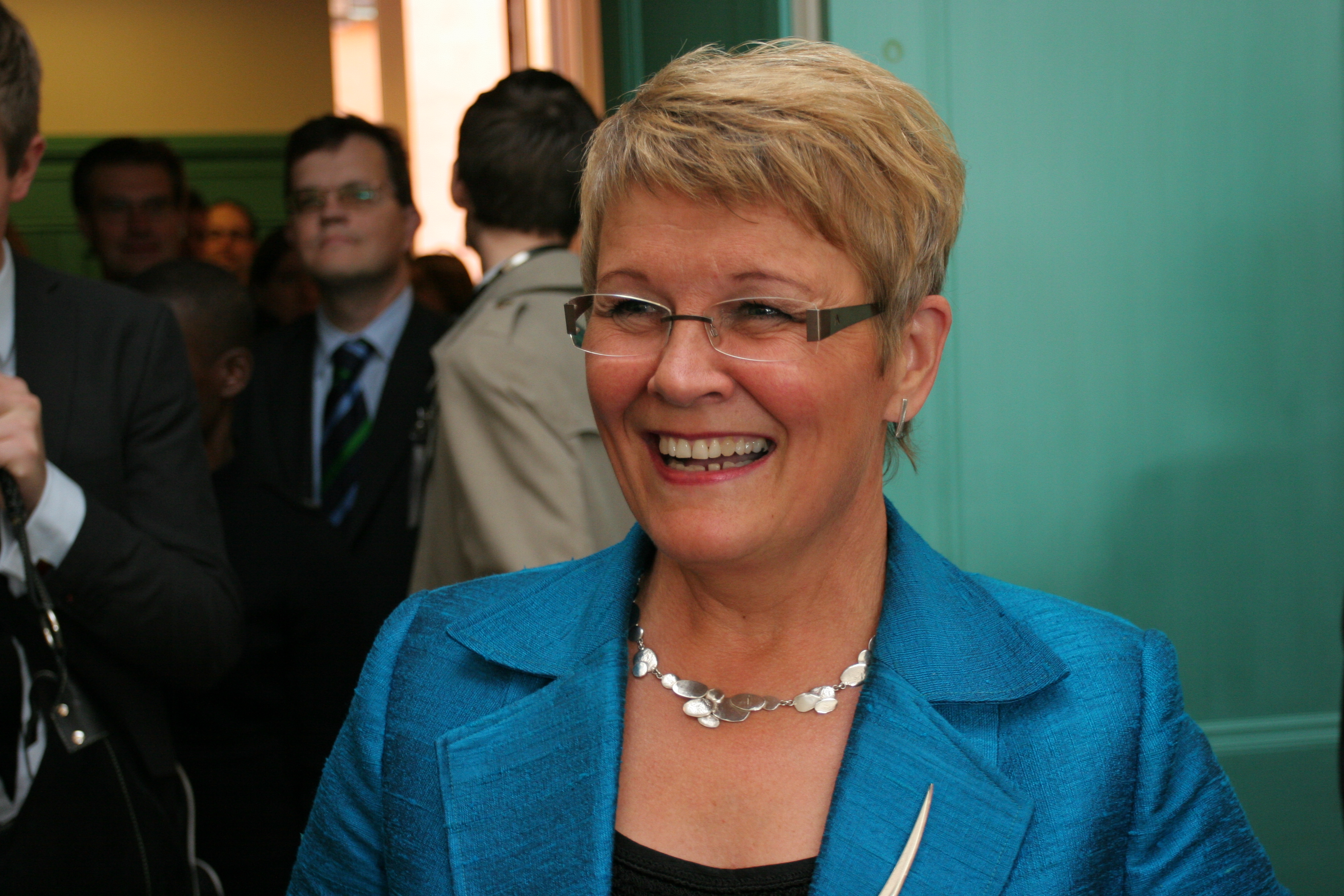 This picture of the leader of the Swedish Centerparty, Maud Olofsson, was taken at the day when she was appointed Deputy Prime Minister and Minister of Enterprise and Energy. She wears a silver necklace made by Ann-Sophie Qvarnström